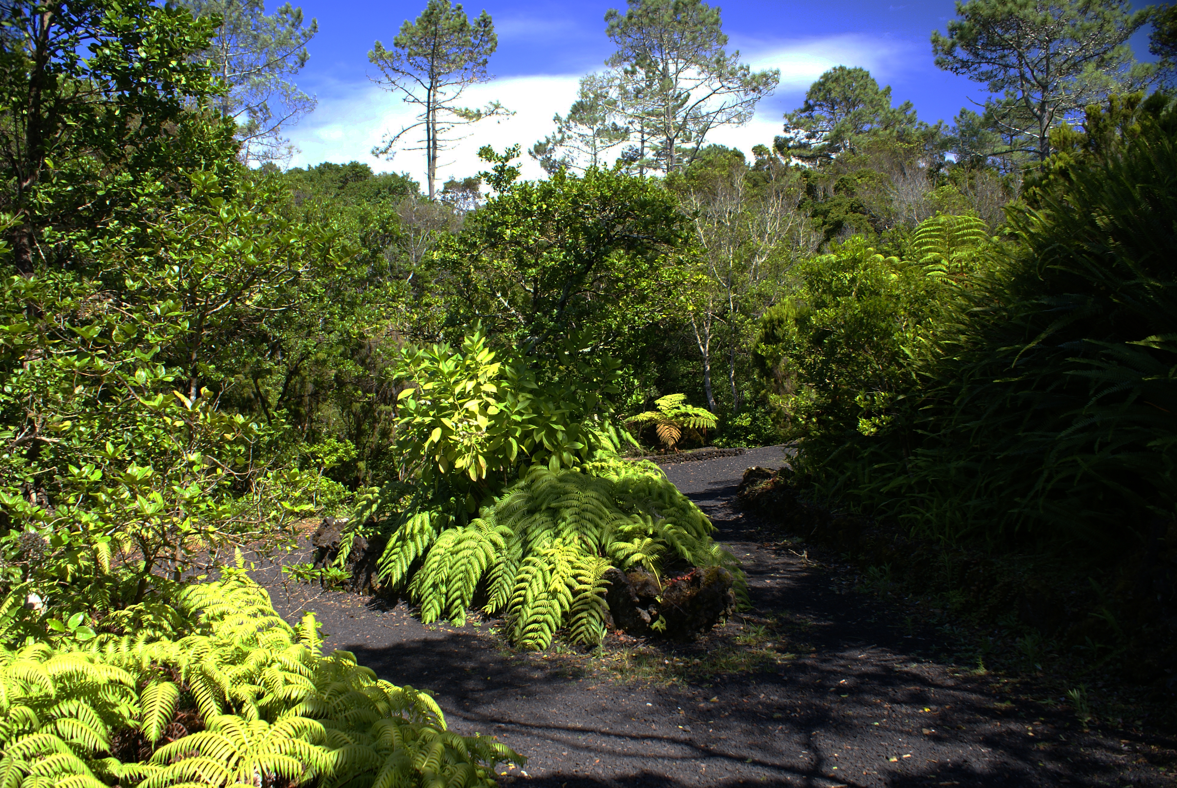 Reserva Florestal de Recreio do Capelo, concelho da Horta, ilha do Faial, Açores, Portugal